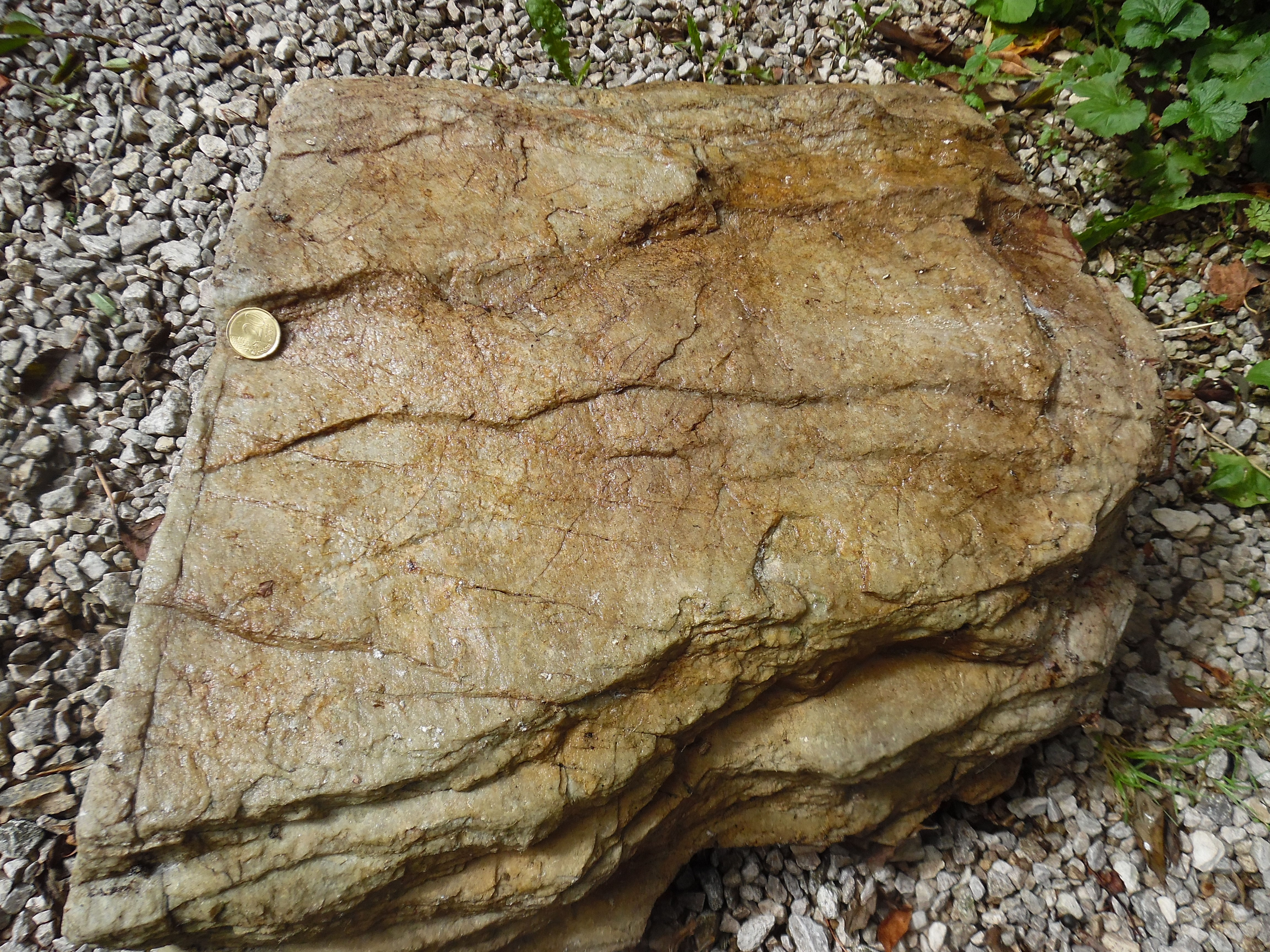 Ordovician quartzite from Puy des Âges near Payzac, Dordogne, France.